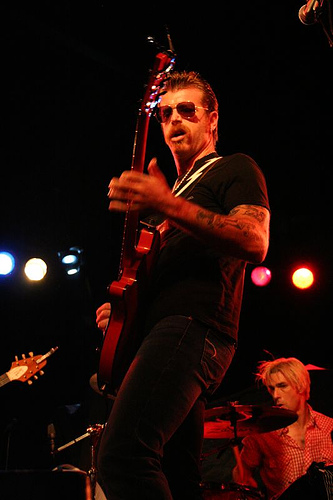 Eagles of Death Metal live at The Glass House (Pomona, CA)